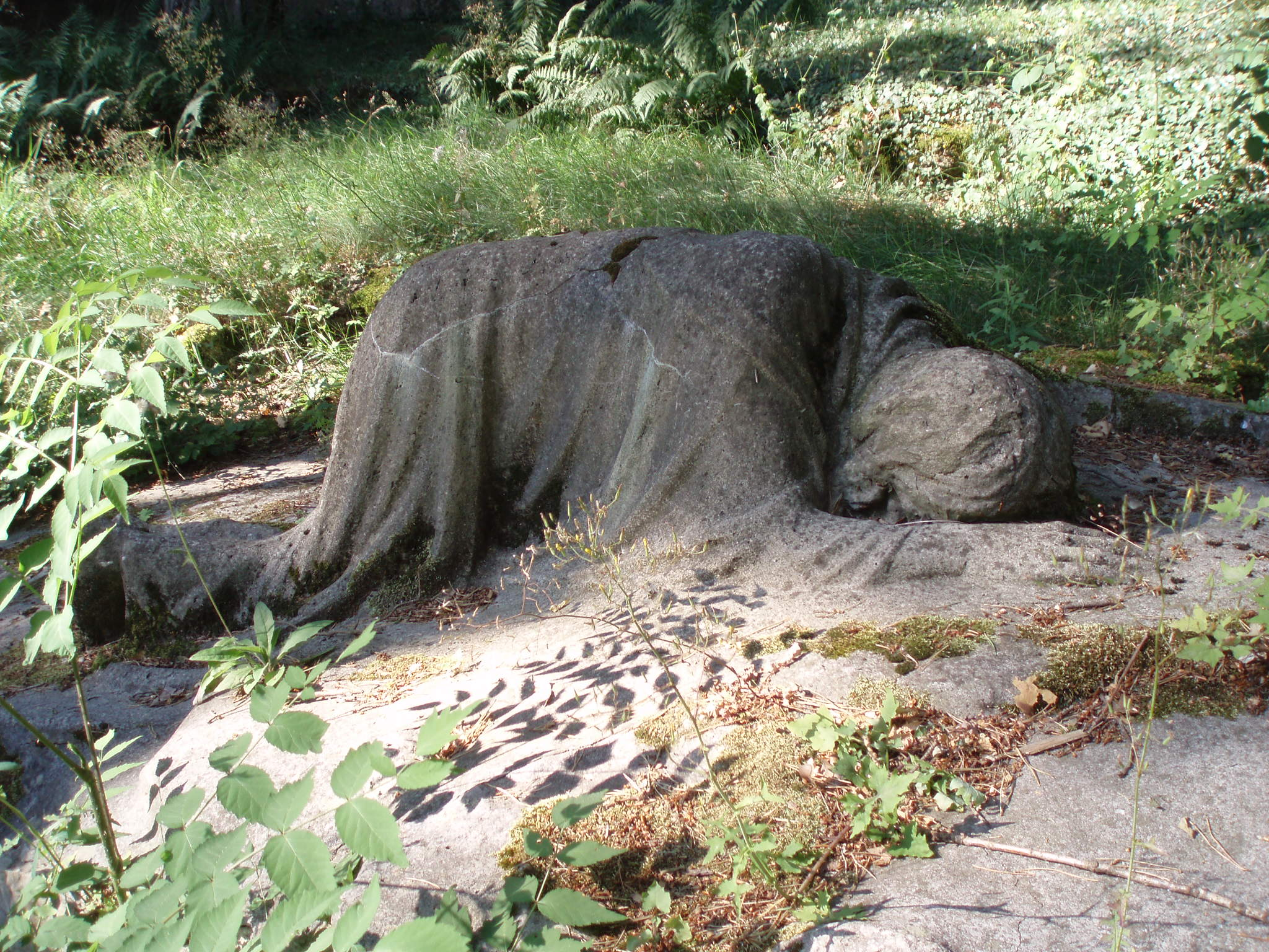 'Jesus in Gethsemane', asking God for help, statue made by Piet Gerrits in the village Heilig Landstichting (NL)